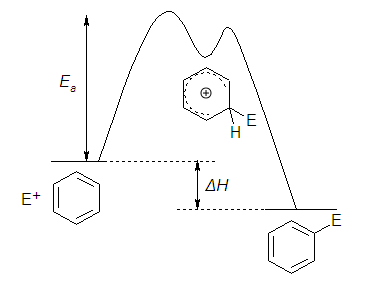 Description: Electrophilic aromatic substitution reaction profile. Source: Myself using ISIS/Draw. Date: 29 January 2007